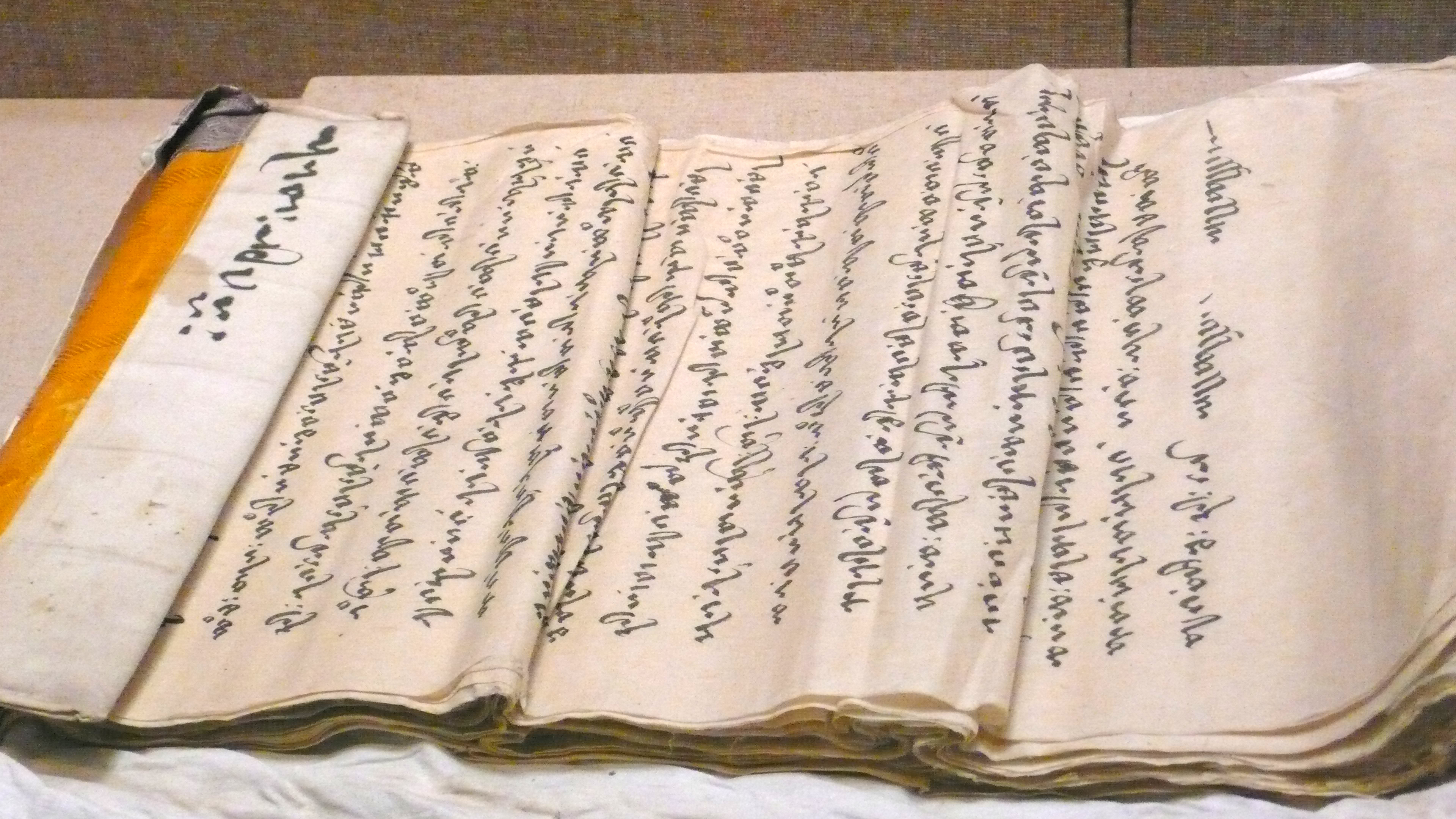 Buddhist texts written in Tai Le script. Collected by National Museum of Chinese Writing.